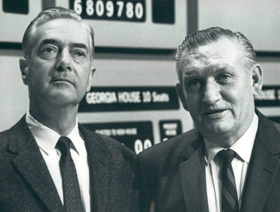 Photo of Howard K. Smith (left) and William Lawrence for ABC 1968 presidential election coverage.